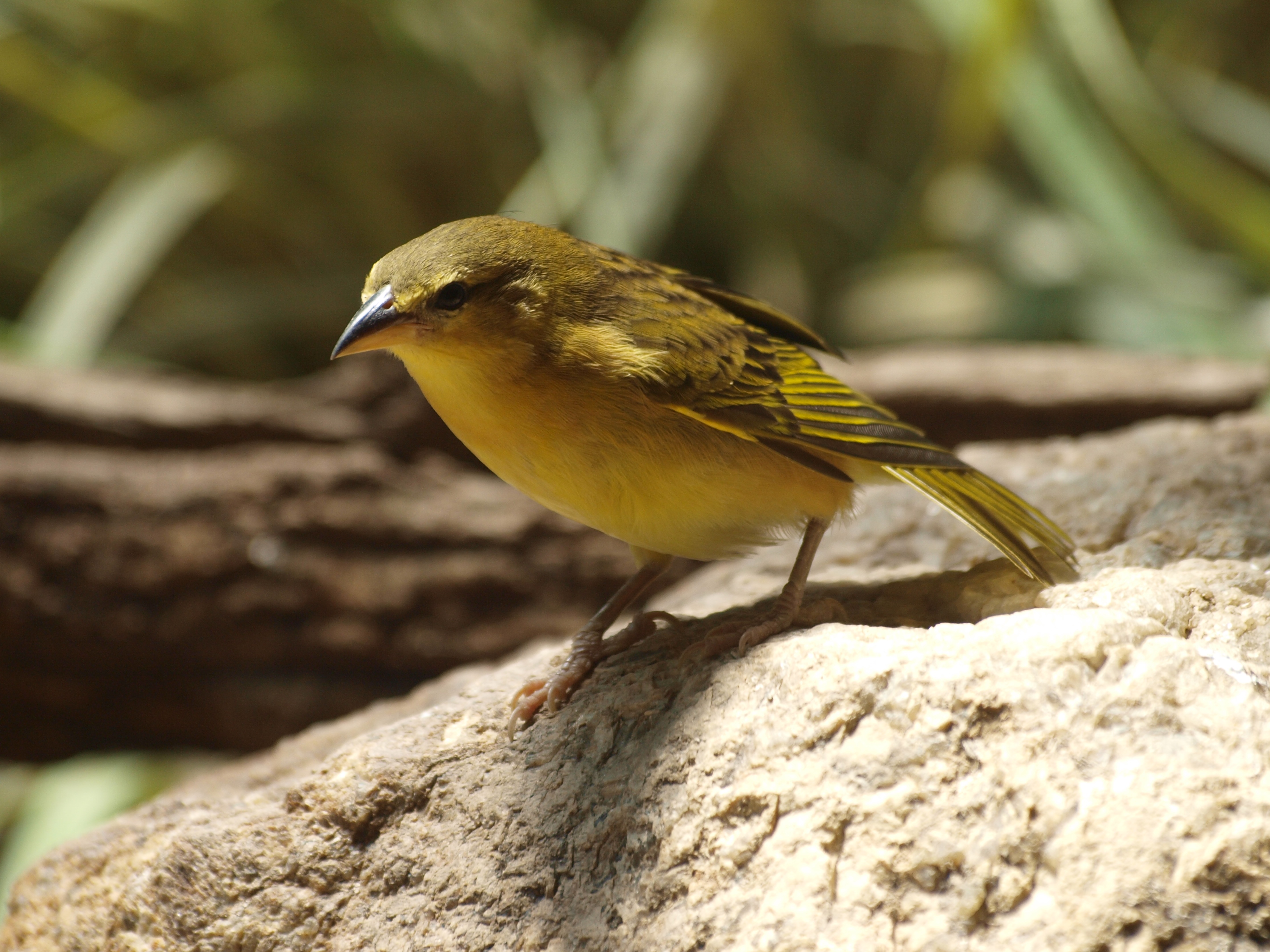 Taveta Golden Weaver (Ploceus castaneiceps) Лисий ткач (Ploceus castaneiceps)